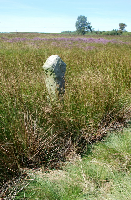 Whibbersley Cross This cross is nearly lost to view amongst the rushes in this wasteland near Clod Hall Farm. The Cross is to the east of the nearby road but somewhat confusingly the Ordnance Survey has the name written to the west of the road.